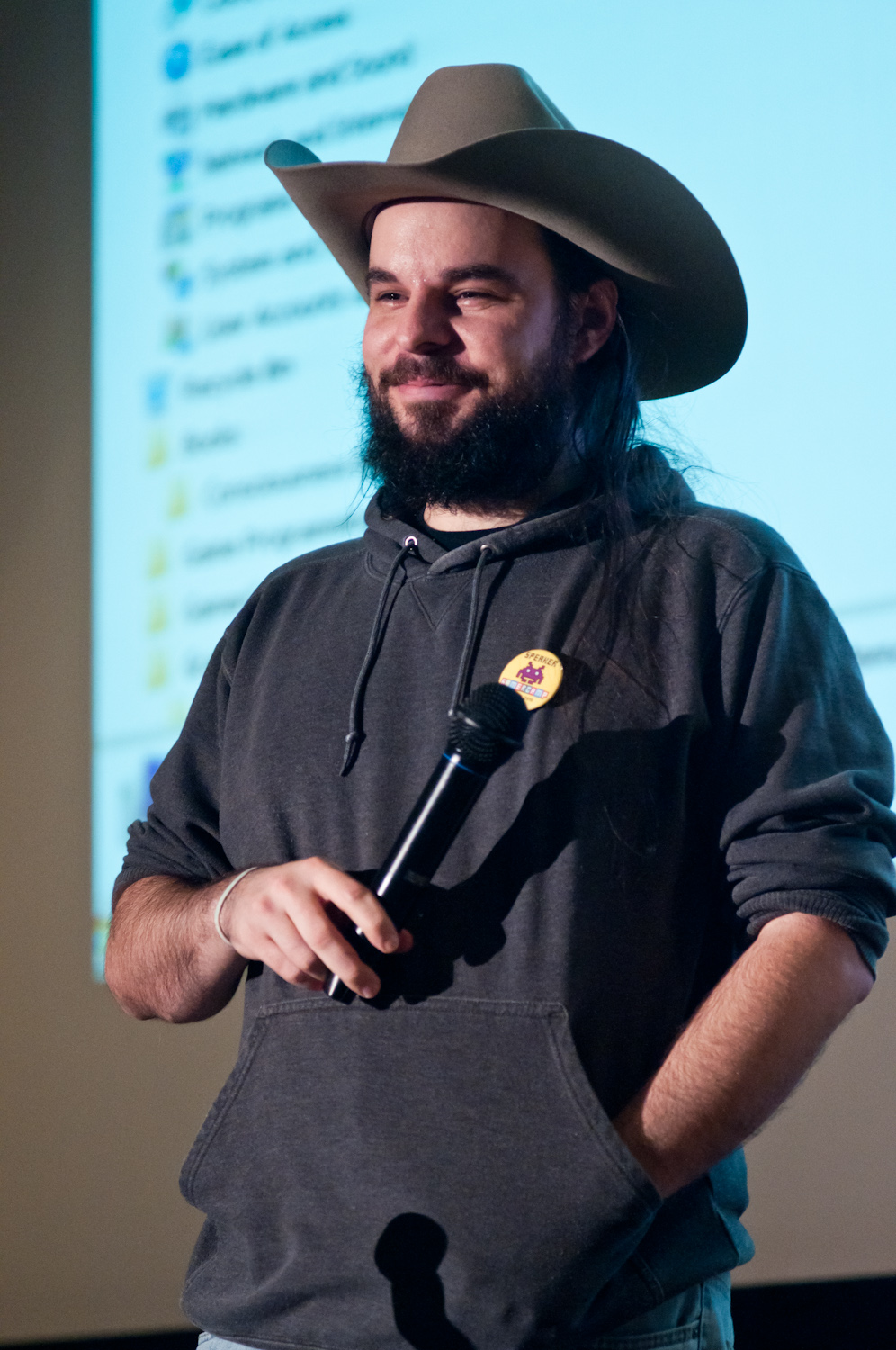 These photos are ©Ryan Couldrey. If you wish to use them for reasons pertaining specifically to Gamercamp 2010, you have my permission to do so. You may not use these for other commercial purposes. As an example, can you use it as a facebook avatar? SURE. Can you use a picture as a headshot for a conference program? NO. Get in touch with me, however, and we can do something awesome for your commercial purposes that is tailor made for you - you won't be disappointed. Include credit and link to my site if using photos, please.